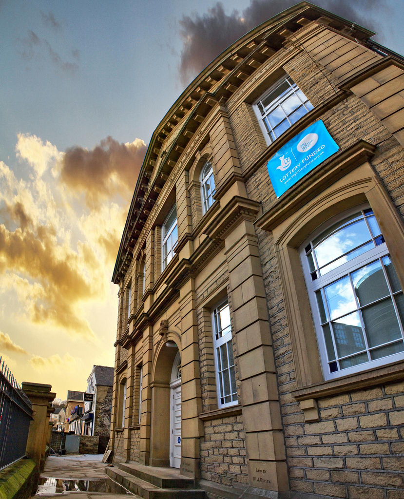 Built in 1893, Central Hall is a former Methodist Chapel on Alice Street. It became a space for the Keighley community in 1948 and was used for all kinds of activities over the years before being closed down amid a state of dereliction in 2003. Its resurrection was carried out by Hodson Architects, under the project management of KIVCA, an infrastructure support organisation who has led a project funded by Bradford Council to renovate the old building into a new community resource centre. The original-resolution copy of this photograph can be found online here.